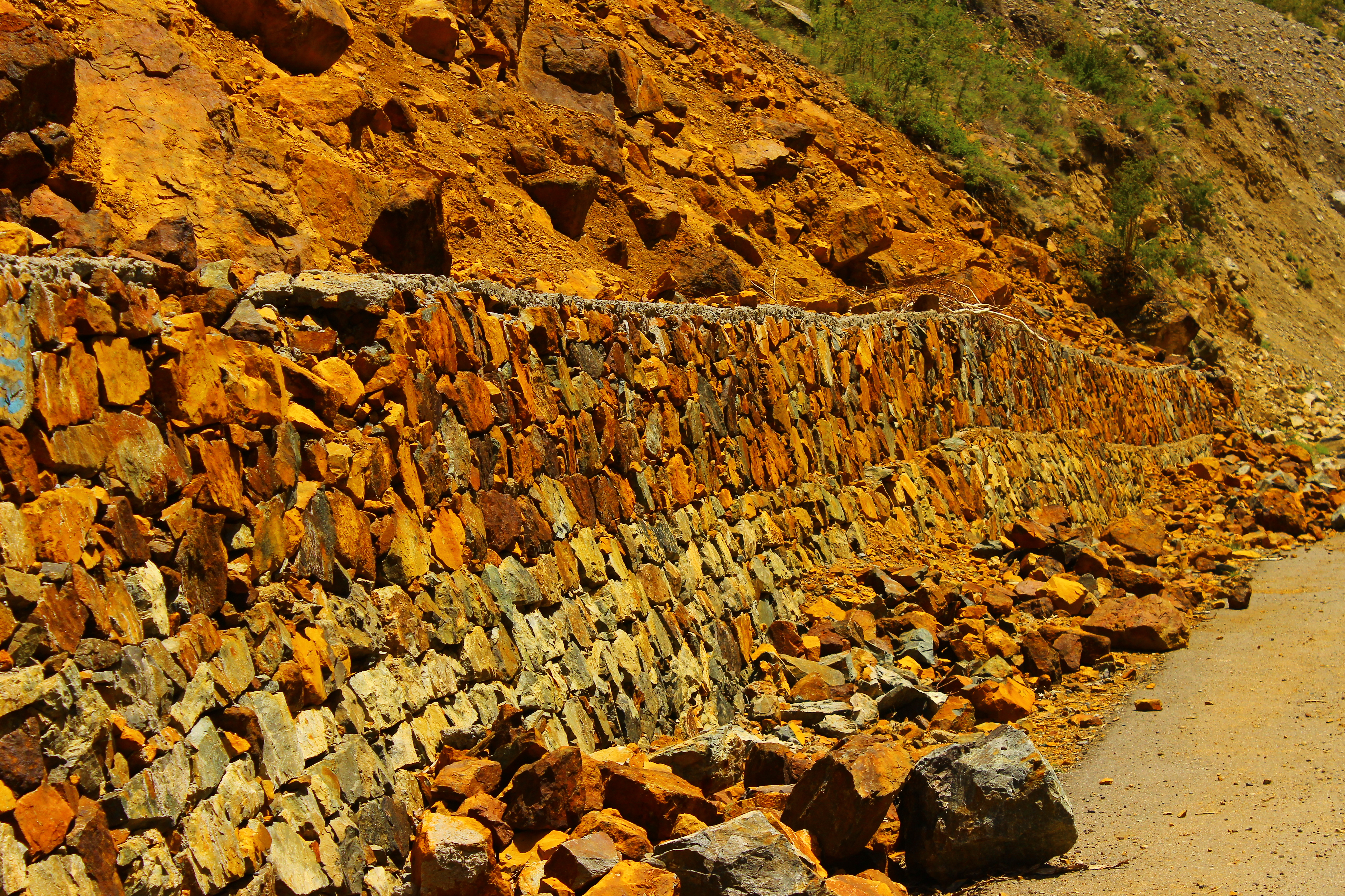 Keno Daas (rock carvings) This is a photo of a monument in Pakistan identified as the GB-12